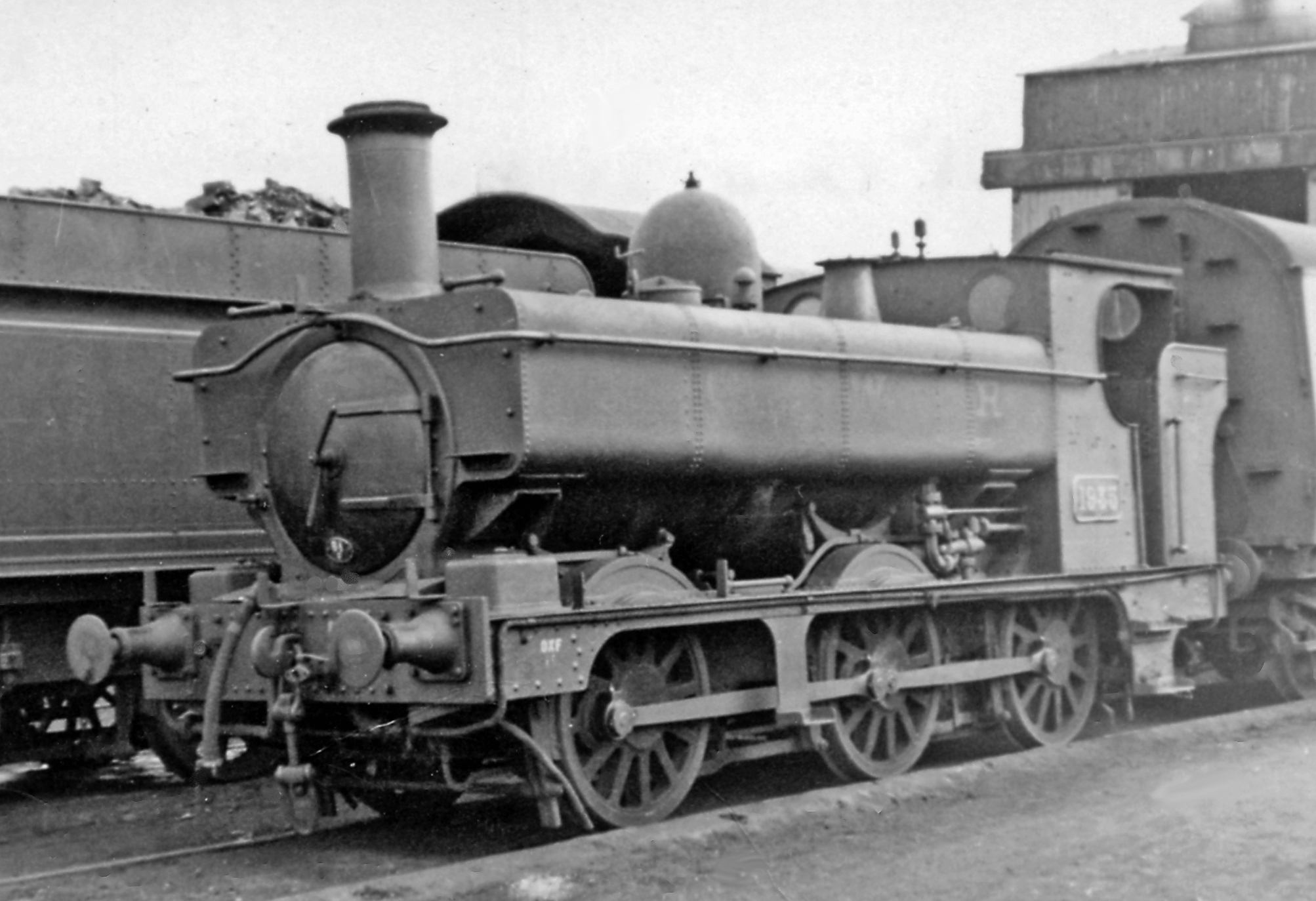 Elderly ex-GWR Pannier 0-6-0T at Oxford Locomotive Depot. One of hundreds of the type, Dean '1901' class No. 1935 was built in 8/1884 as a saddle-tank, converted to a pannier-tank in 2/1913 and survived until 11/53.